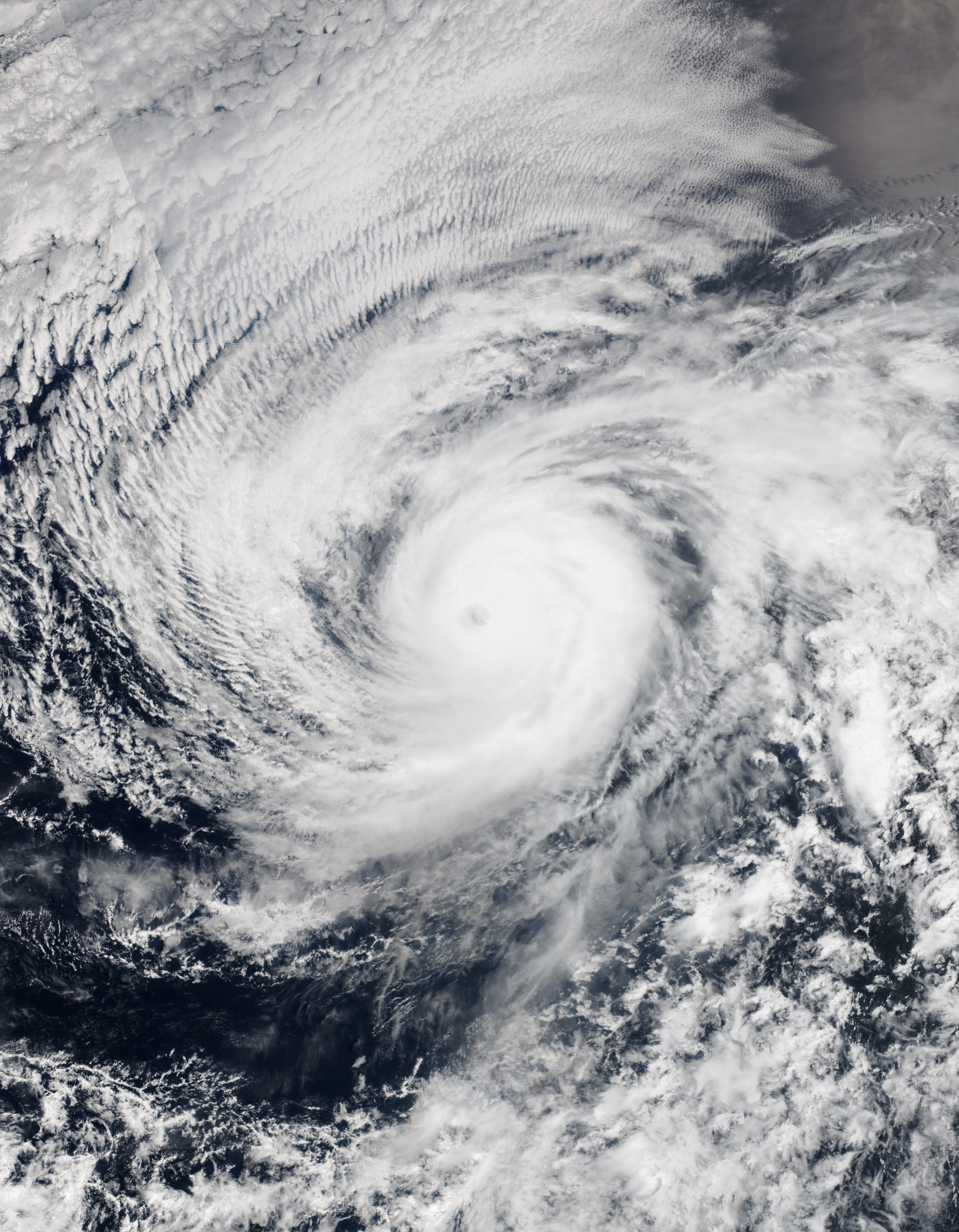 Hurricane Andres at peak intensity on June 1, 2015